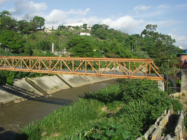 Guaire River. Libertador Municipality, Capital District (Caracas), Venezuela. From the Barda Bridge of Tamanaco Avenue.